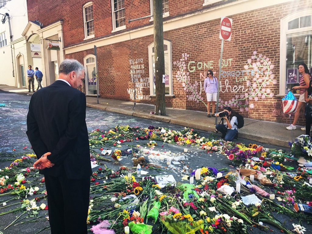 Tim Kaine inspects a makeshift memorial to Heather Heyer at the site of her killing